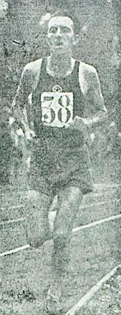 Franjo Mihalić (born March 9, 1920), Croatian athlete